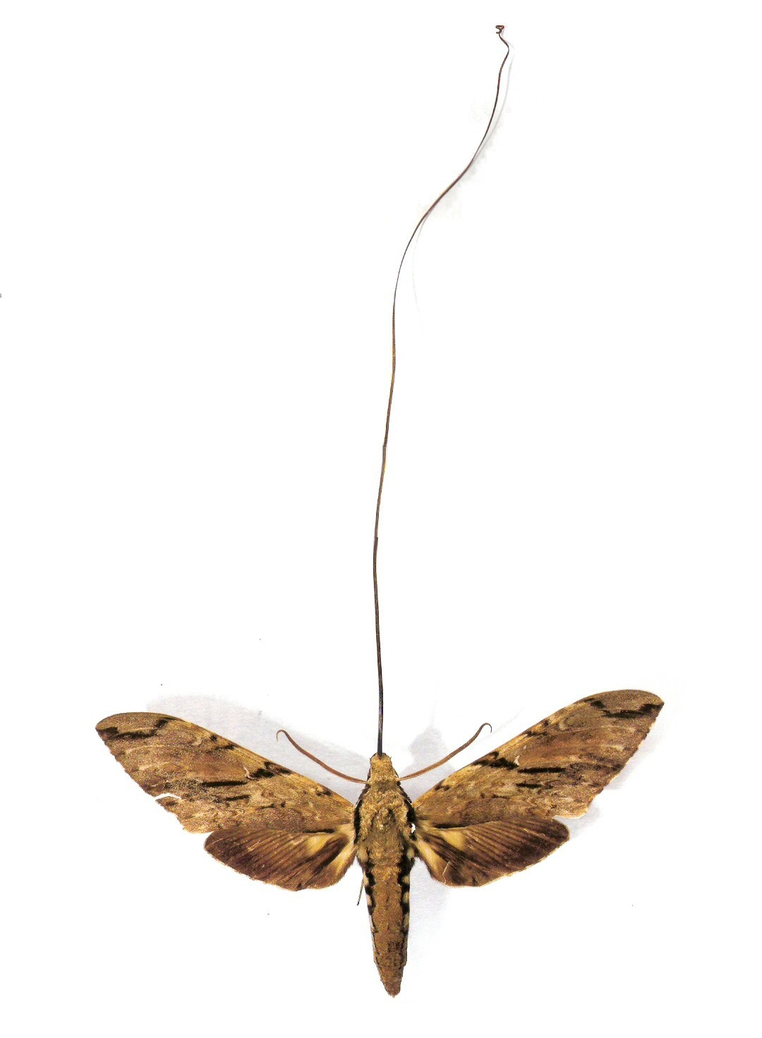 Xanthopan morganiNatural History Museum of London